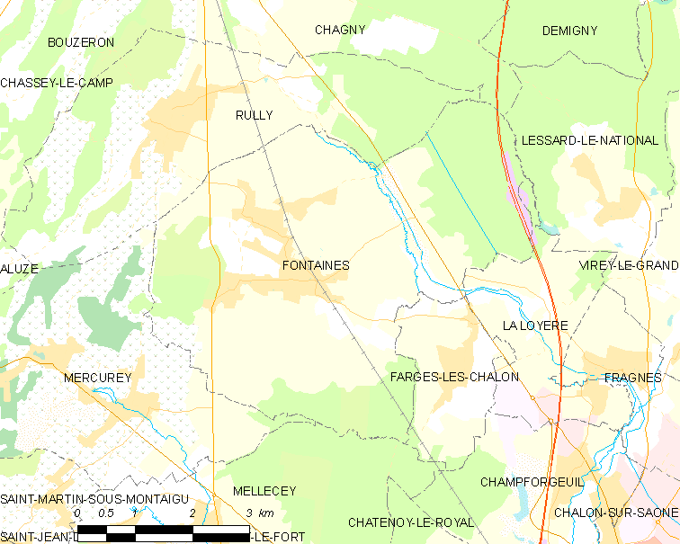 Map of French municipality